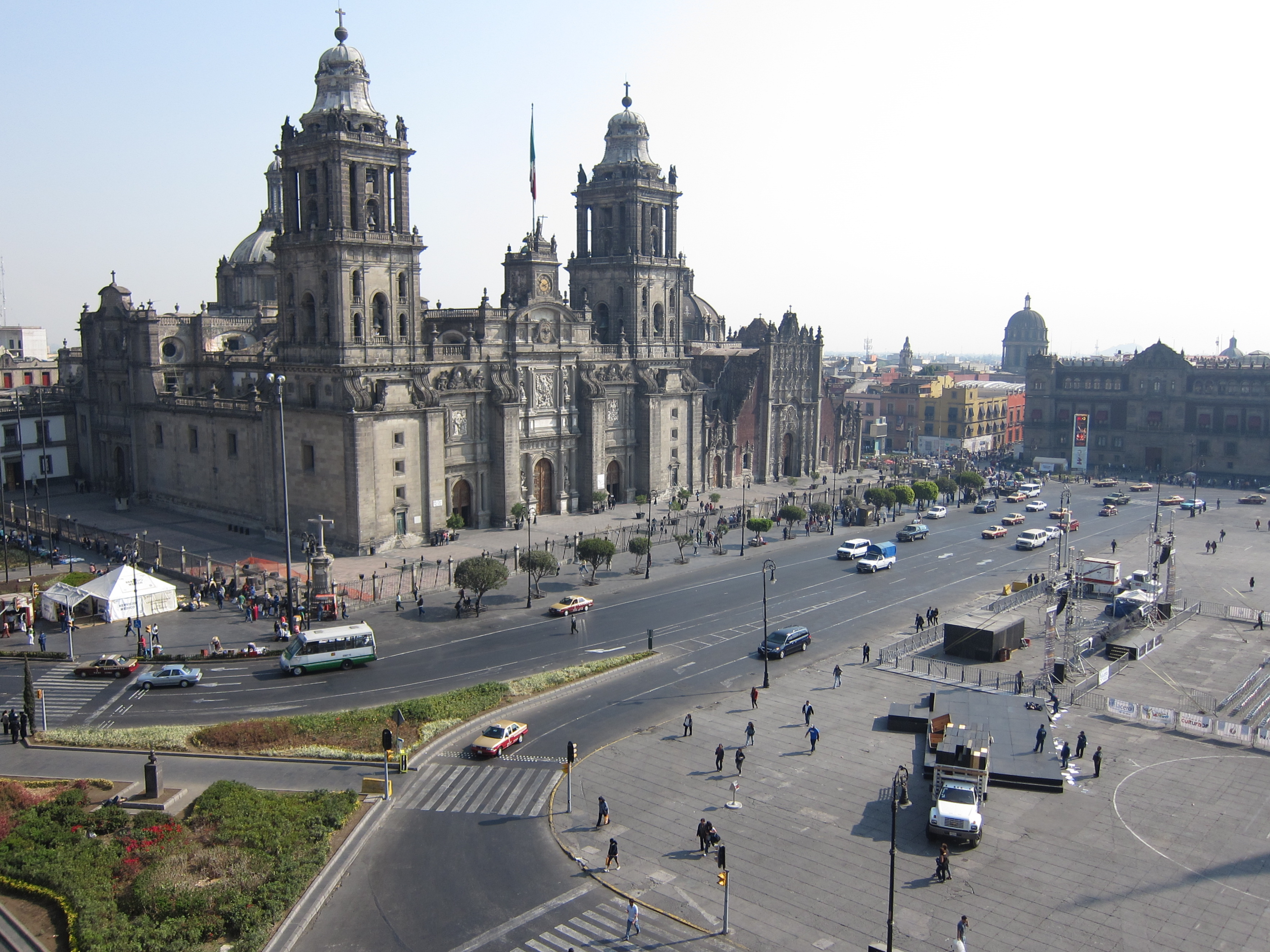 Mexico City Zocalo